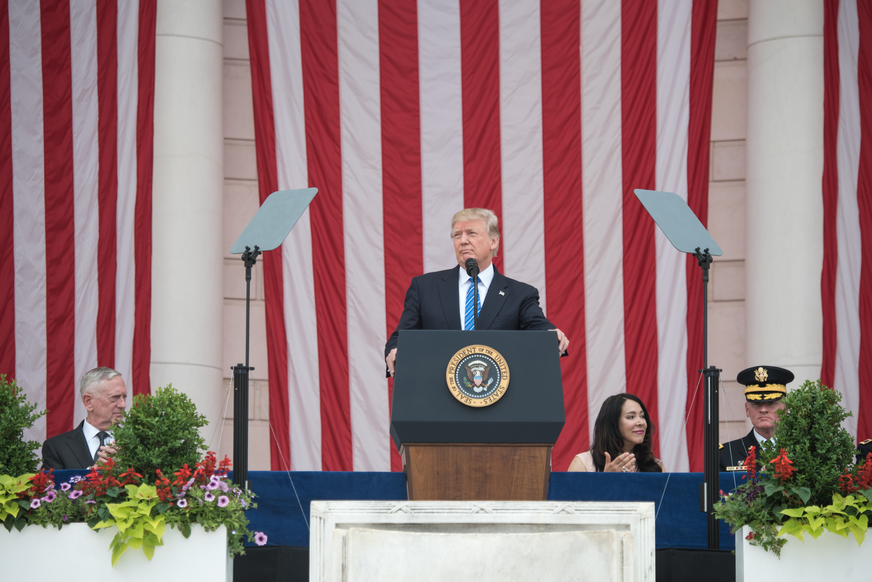 President Donald J. Trump delivers the Memorial Day address during the 149th annual Department of Defense (DoD) National Memorial Day Observance at Arlington National Cemetery, May 29, 2017. Senior leadership from around the DoD gathered to honor America’s fallen military service members. (DoD Photo by U.S. Army Sgt. James K. McCann)